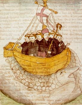 upfront Brendan of Clonfert/Saint Brendan of Clonfert